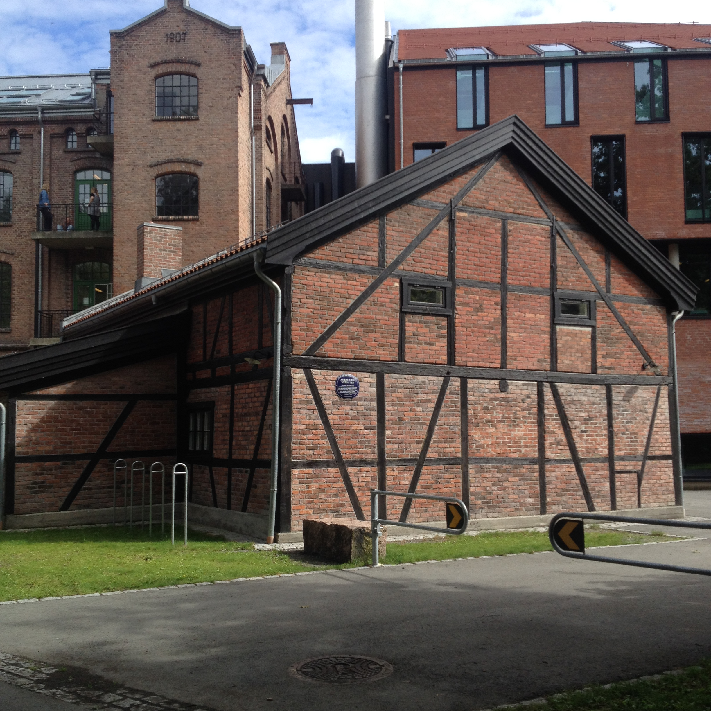 The original headquarters of Akers Mekaniske verksted, in the Grünerløkka area of Oslo, Norway.